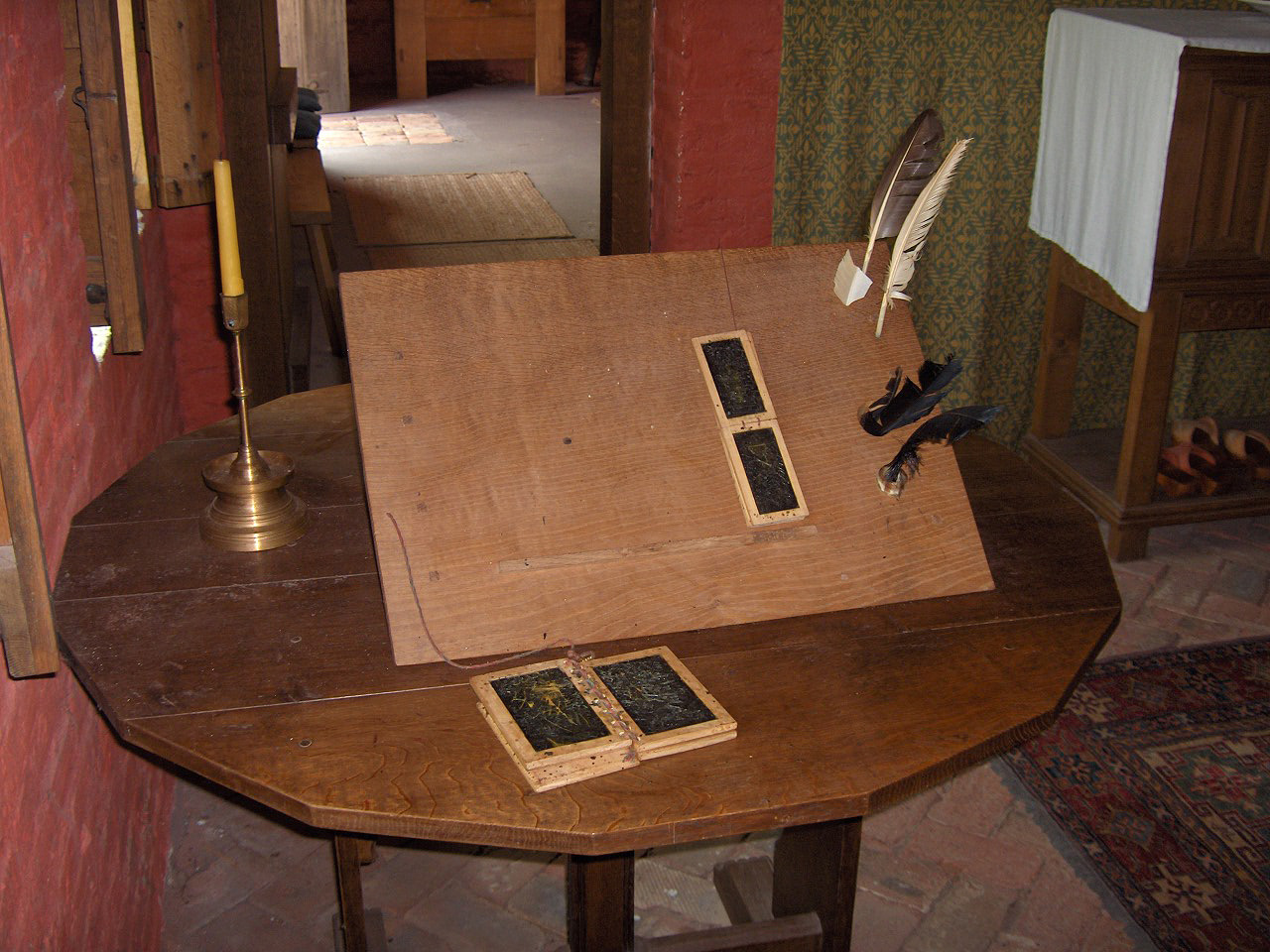 writing table with quills, inkpots and wax tablets on a polygonal table, c. 1465; at the archeological site of Walraversijde, near Oostende, Belgium The candleholder is an accurate replica of the candleholder as shown in the "Merode altar piece from the Master of Flémalle" (c. 1420-1430) (Metropolitan Museum of Art, New York)